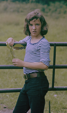 Martin Perels in Q & Q